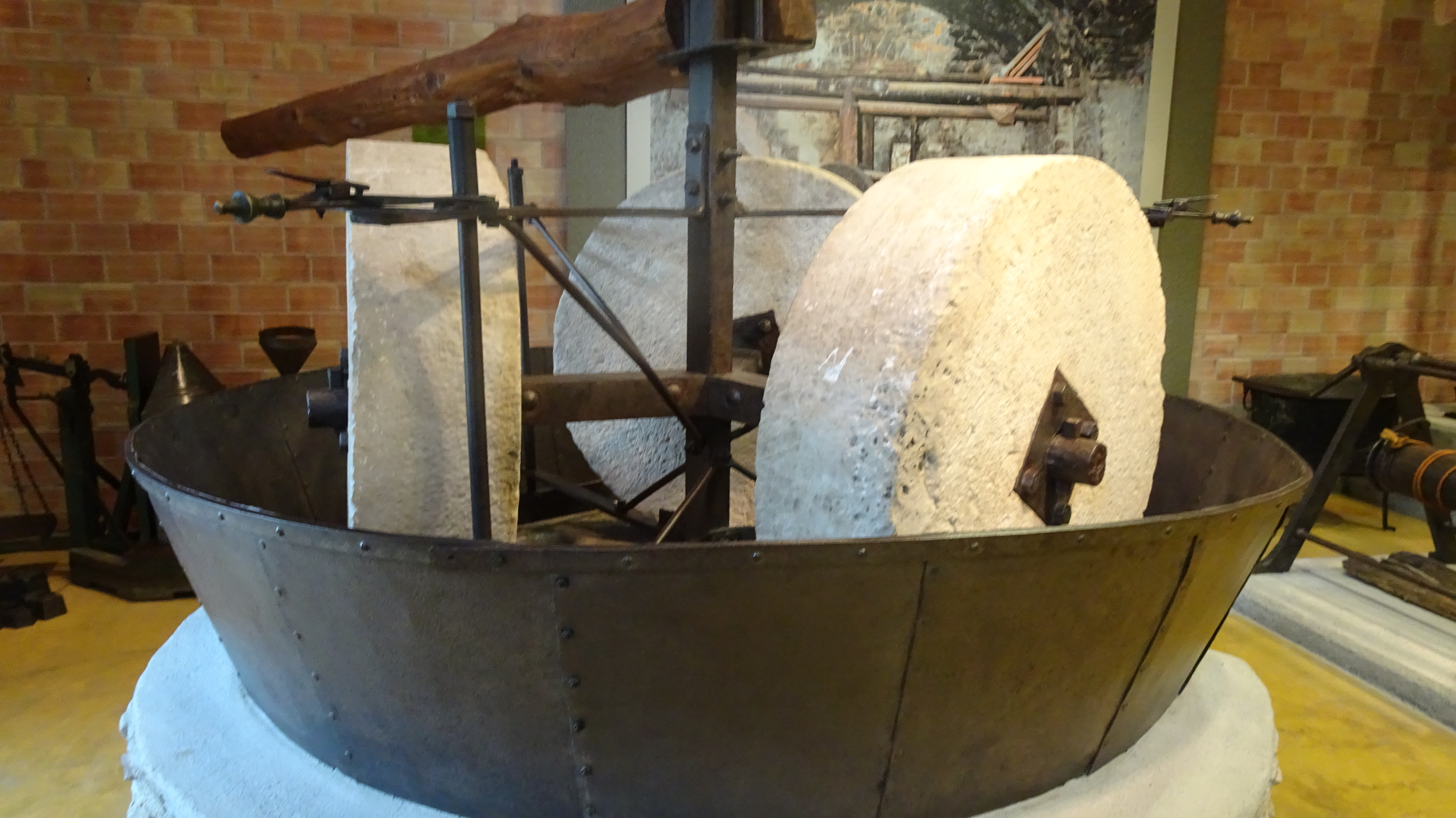 Oil Mill from Dragano Lefkada. 20th century. Museum of the olive and greek olive oil